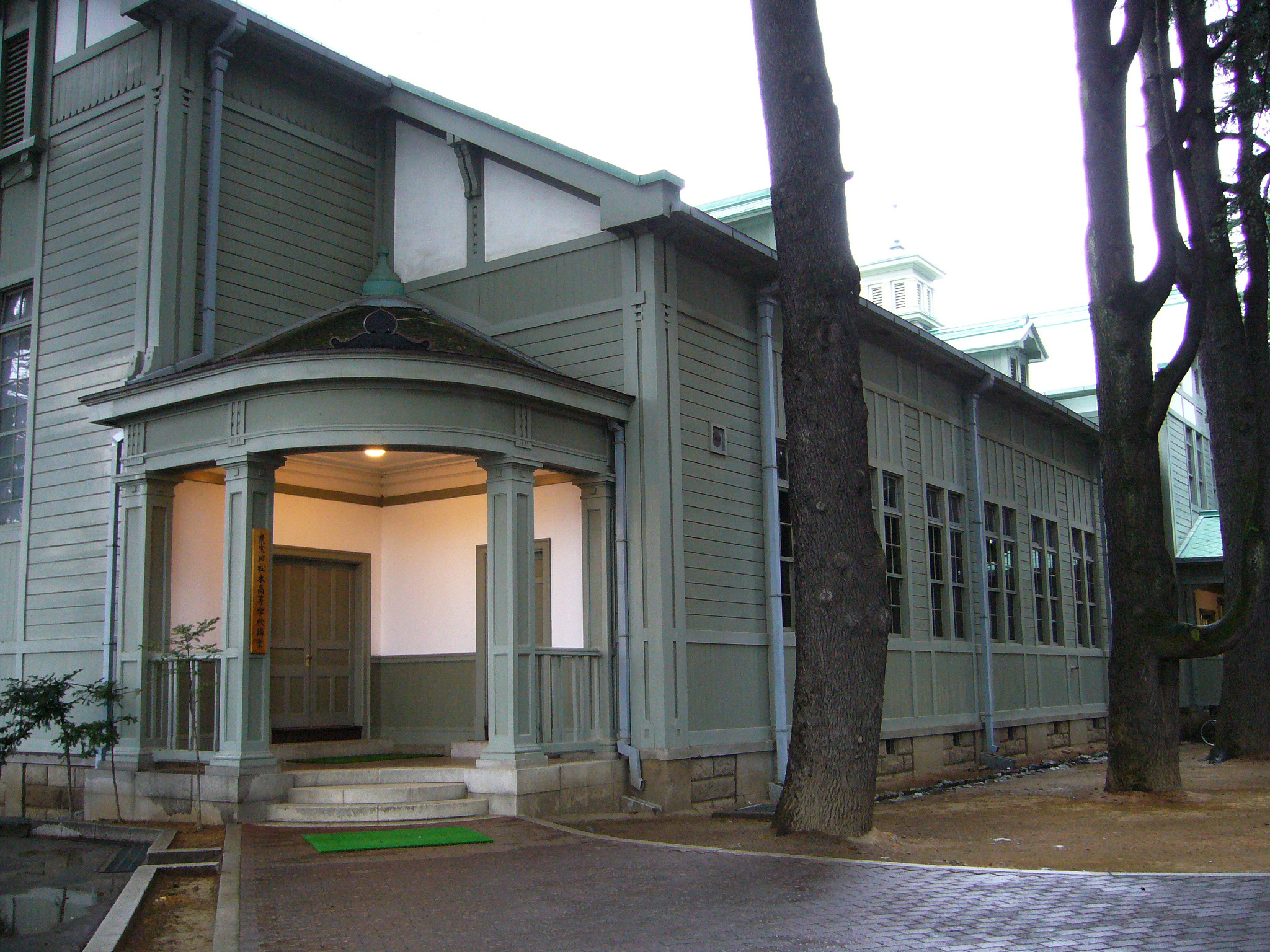 The Old Matsumoto Higher School in Matsumoto, Japan